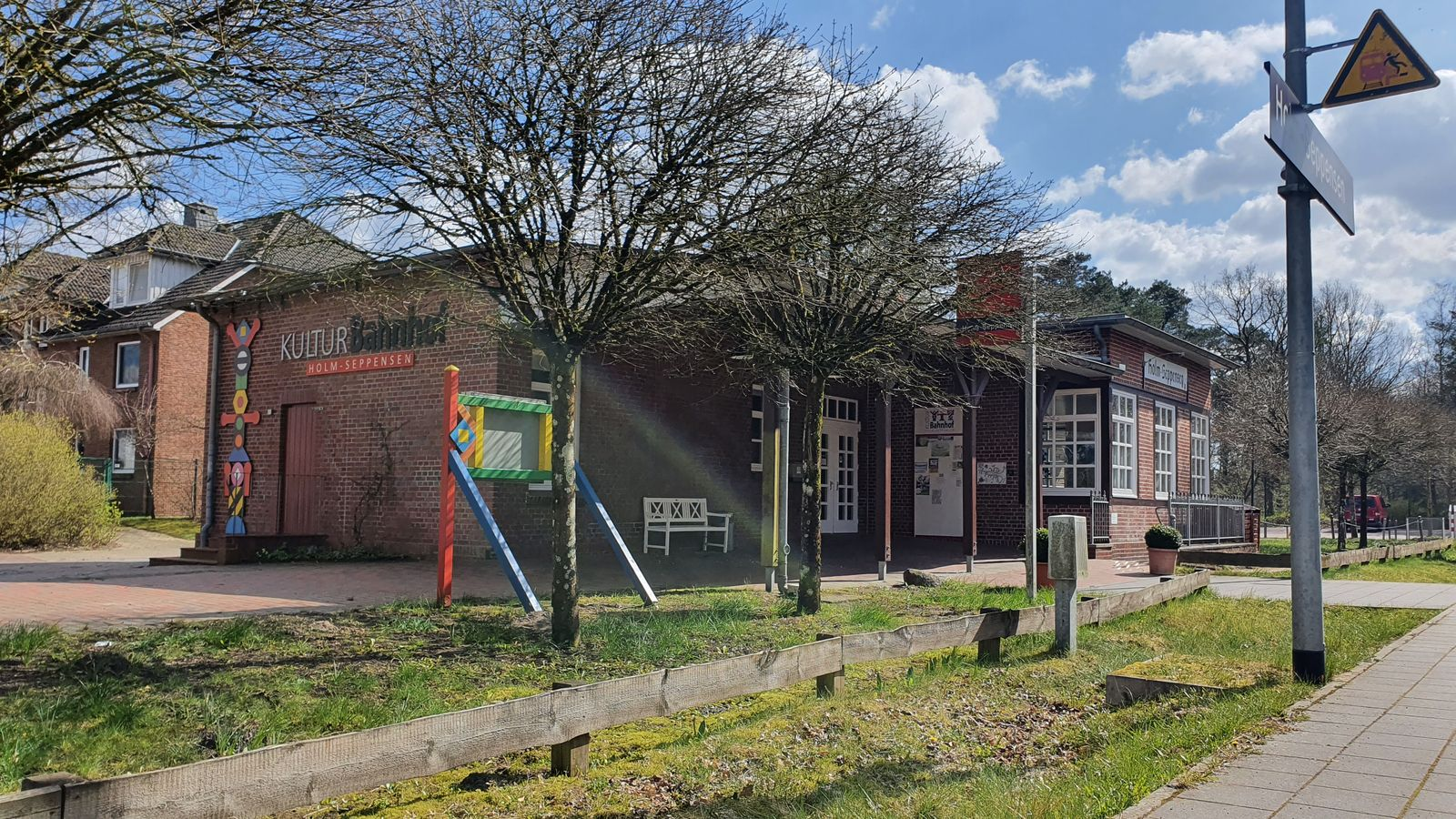 KulturBahnhof Holm-Seppensen